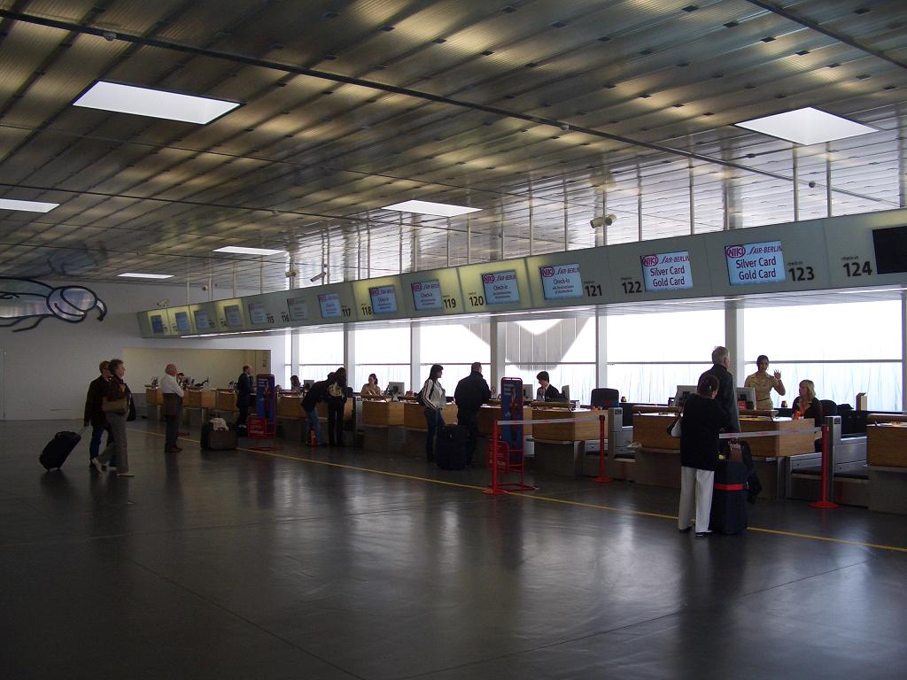 The newly built temporary Terminal 1A